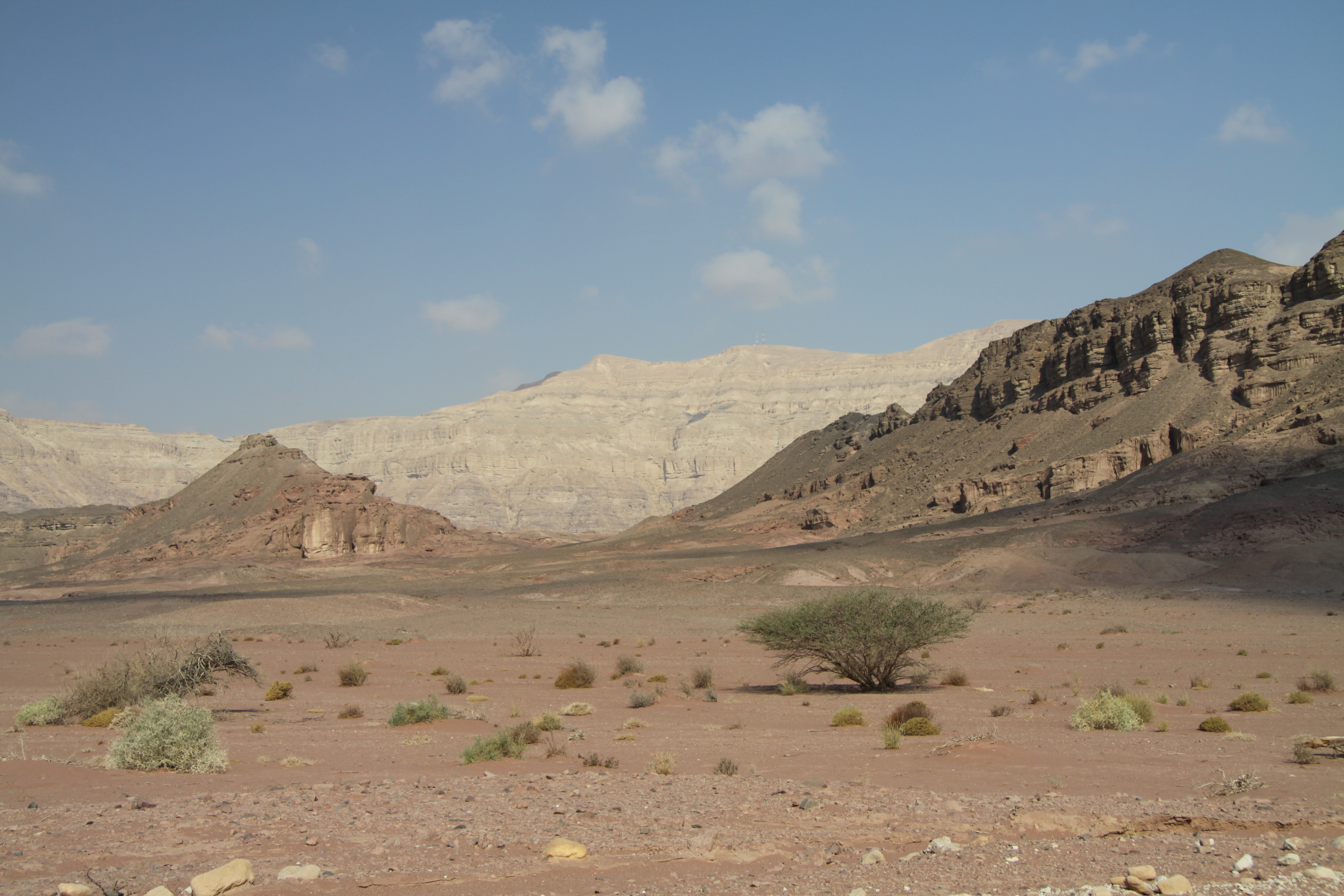 Landscape in Timna Park, Southern Israel